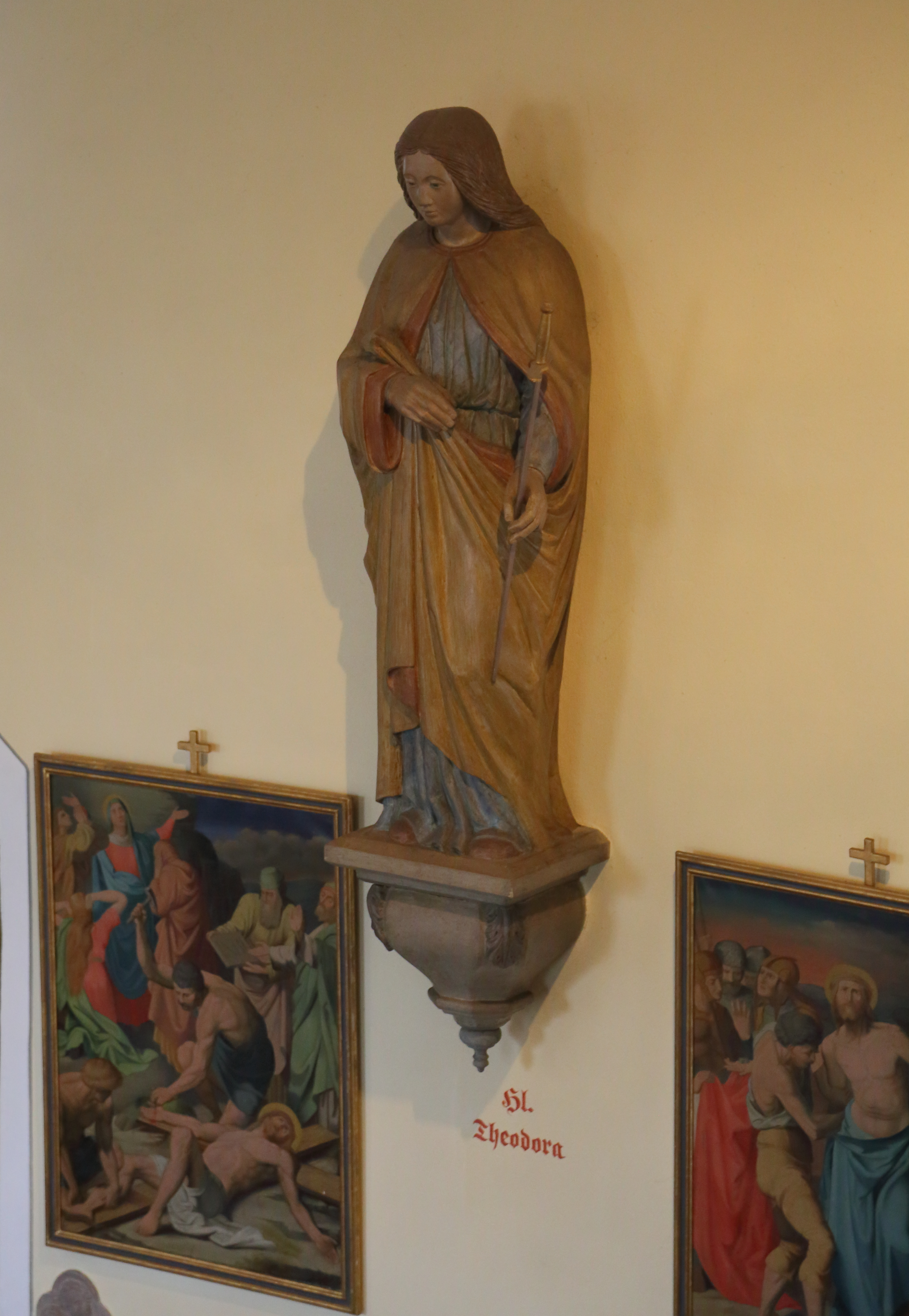 Statue of Saint Theodora in the Roman Catholic Parish Church St Peter and Paul in Hopsten-Halverde, Kreis Steinfurt, North Rhine-Westphalia, Germany.